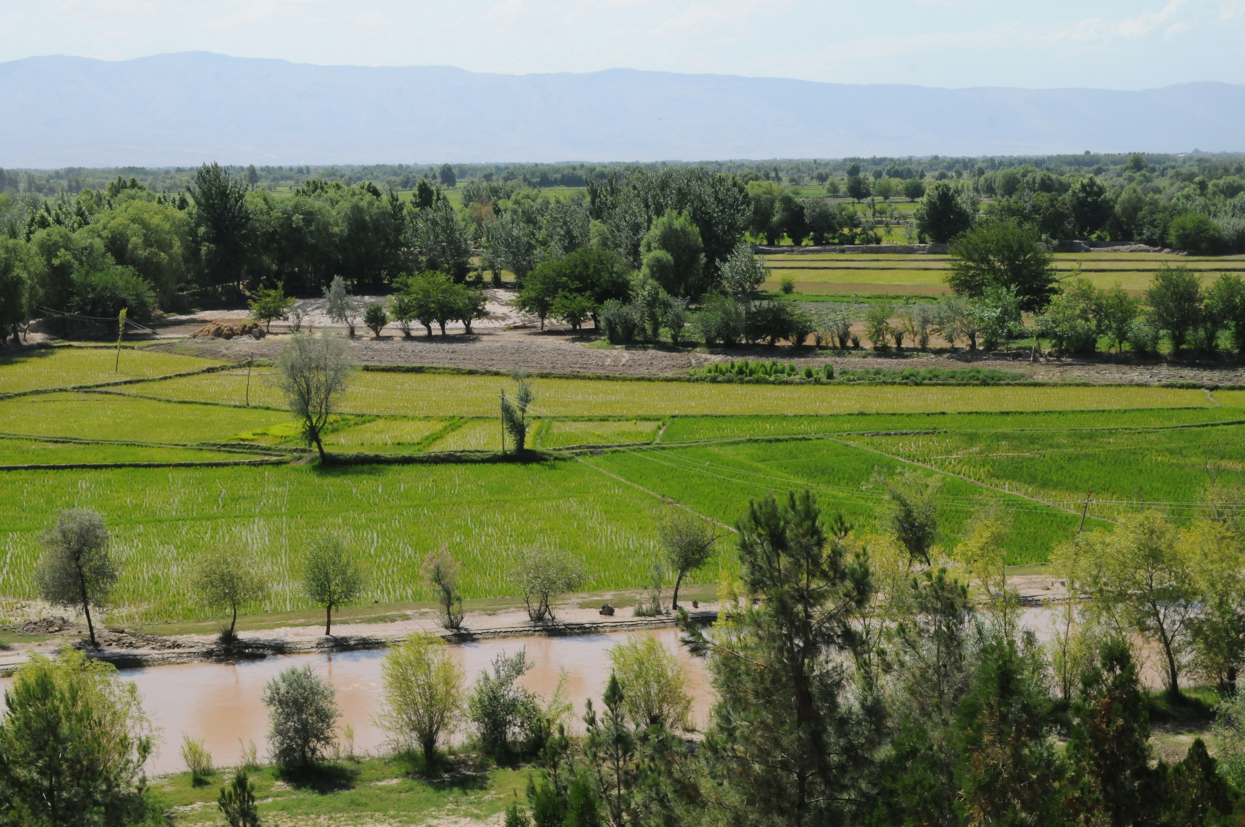 The view from atop a hill in Khawajah Bahawuddin, Takhar Province/Badakhshan Province, Afghanistan, June 27, 2012. (37th IBCT photo by Sgt. Kimberly Lamb) (Released)